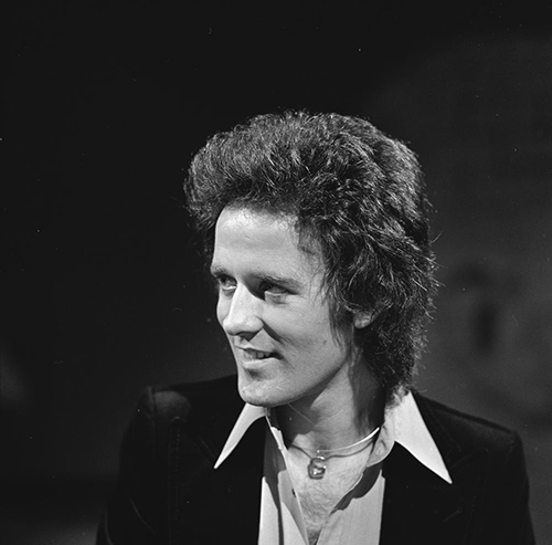 Gilbert O'Sullivan in AVRO's TopPop (Dutch television show) in 1974